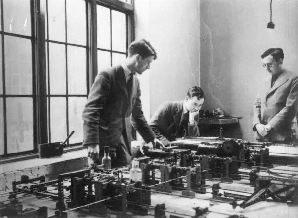 Meccano differential analyser in use in the Cambridge University Mathematics Laboratory. The person on the right is Dr Maurice Wilkes who was in charge of it at the time. The others are J. Corner (centre), operating the input table, and A.F. Devonshire (left).